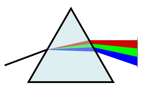 Triangular prism causing the dispersion of a light beam into a colored spectrum.